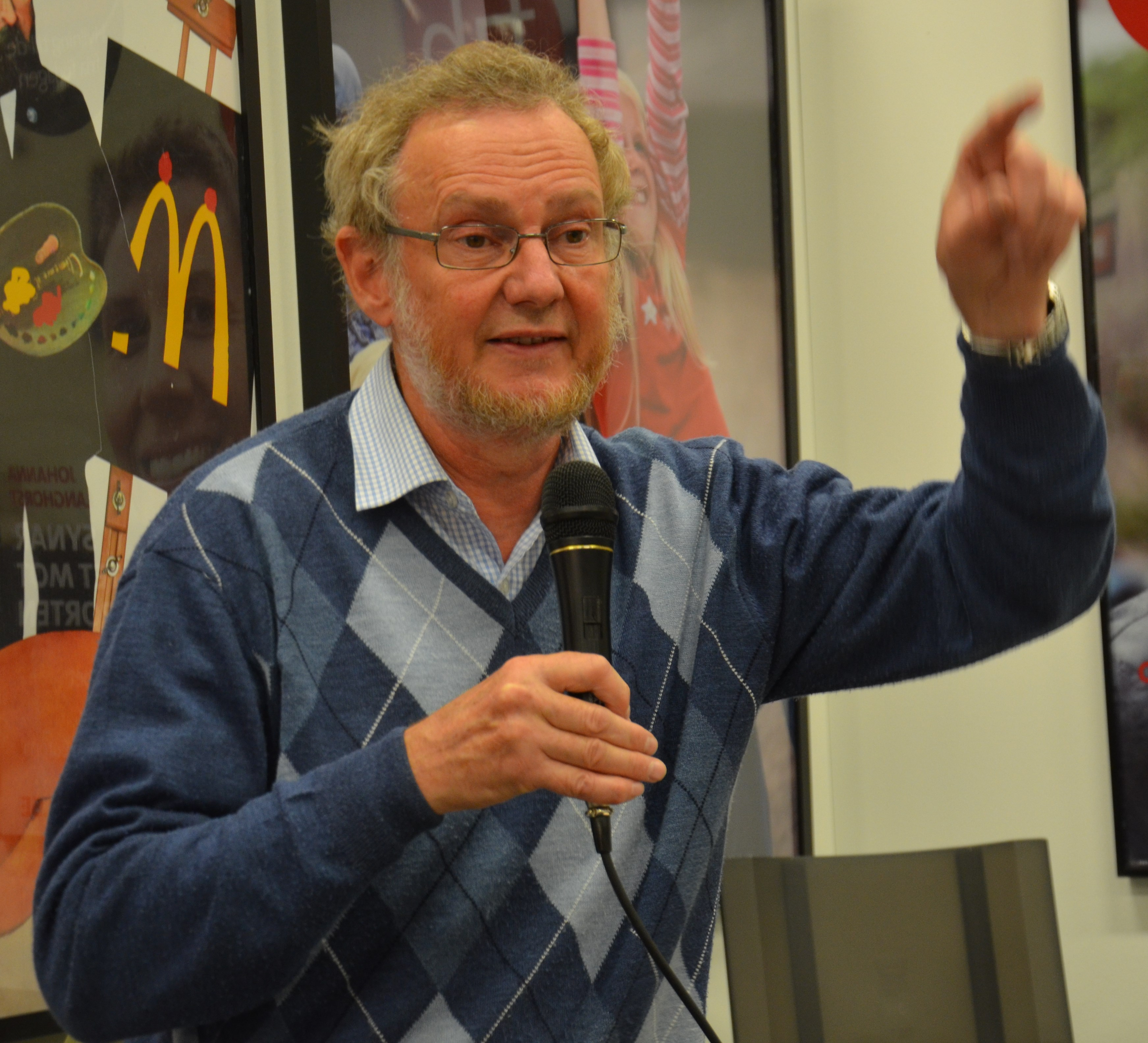 Wilhelm Agrell på Bokmässan 2013